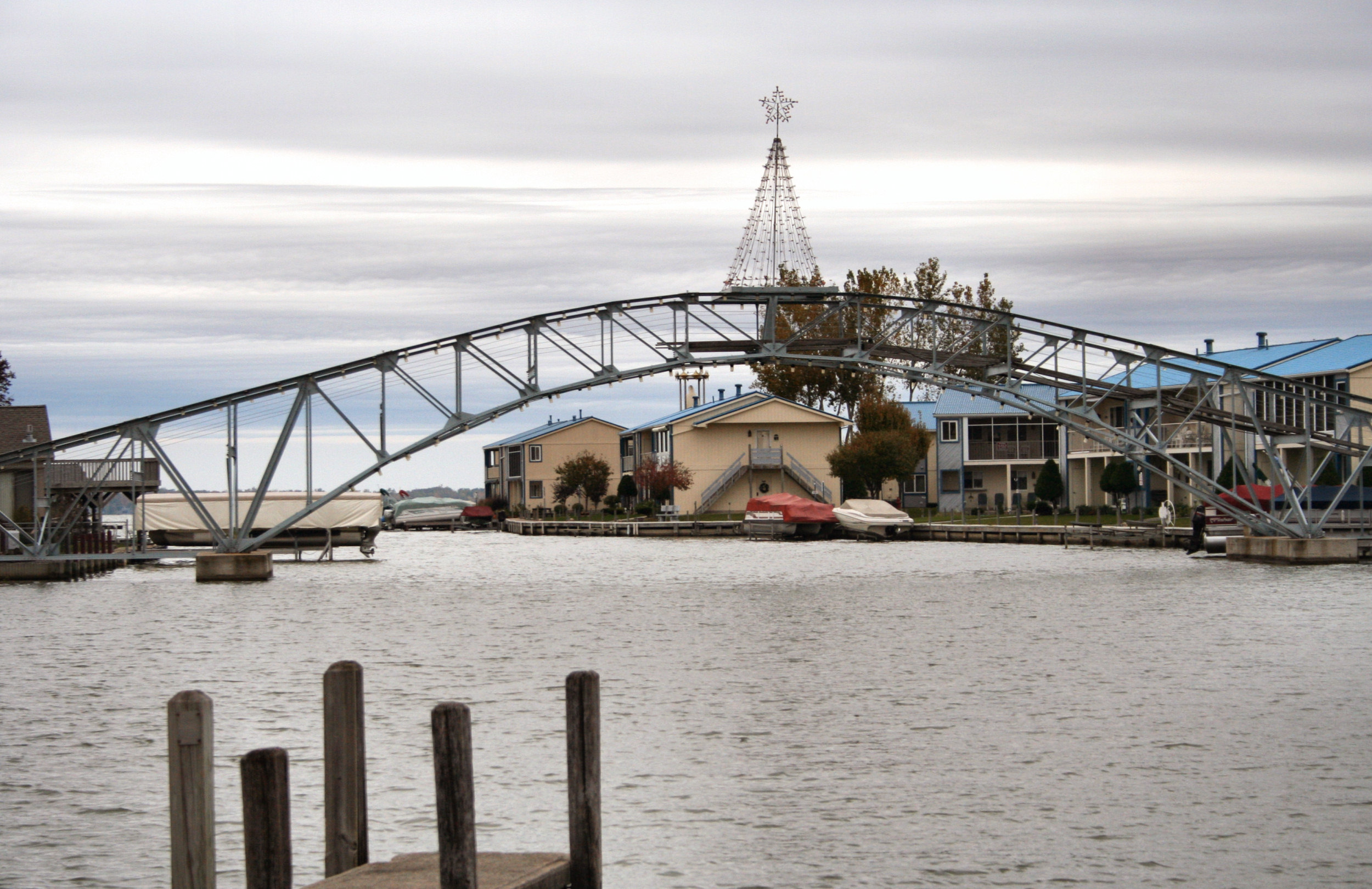 Indian Lake arch in Russells Point, Ohio. Photo shot by Derek Jensen (Tysto), 2005-October-20